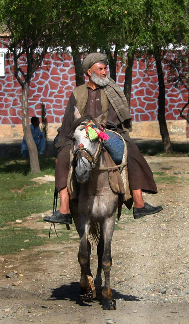 An old Man riding on a horse in Afghanistan.